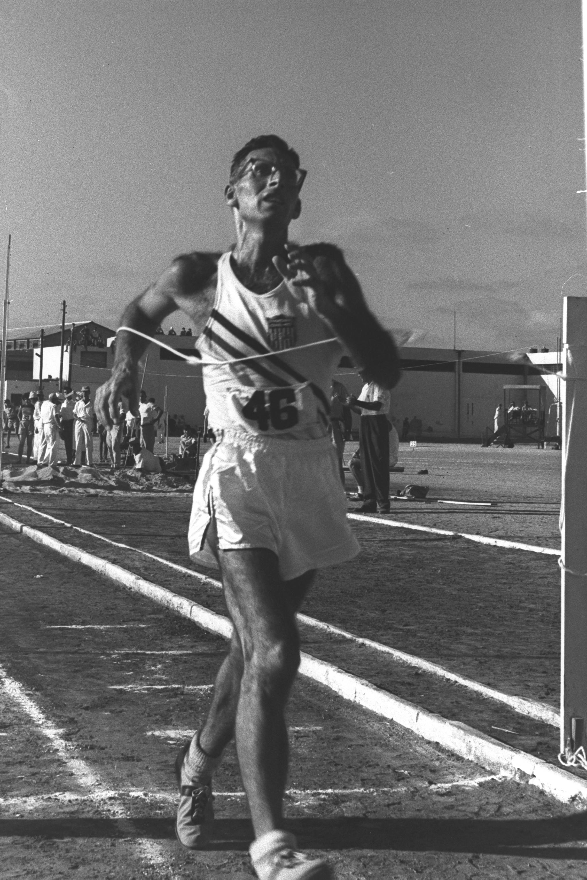 THE WINNER OF THE 5,000 M WALK IN THE 5TH MACCABIA GAMES, AT THE RAMAT GAN STADIUM.